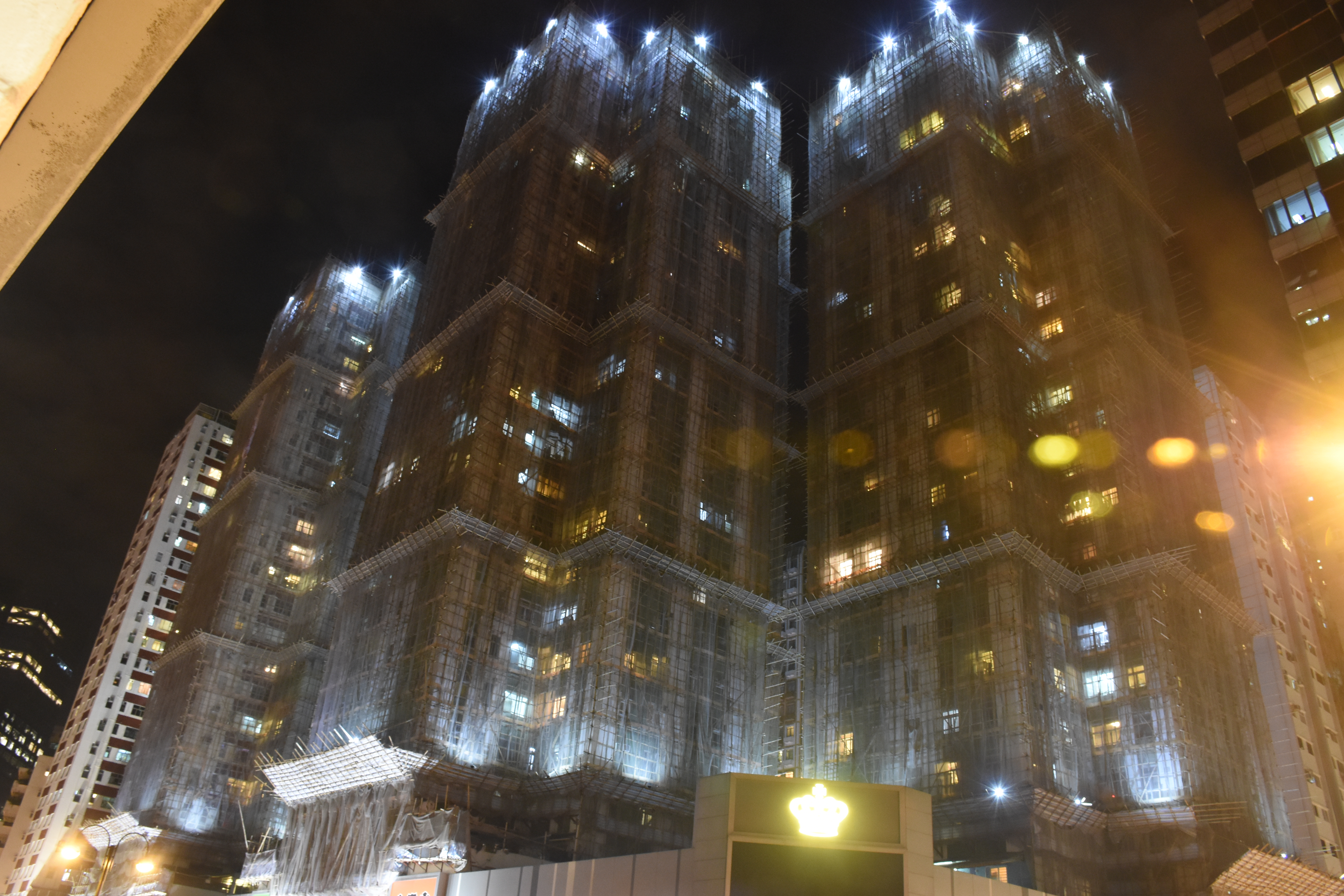 Renovation works of Healthy Gardens.